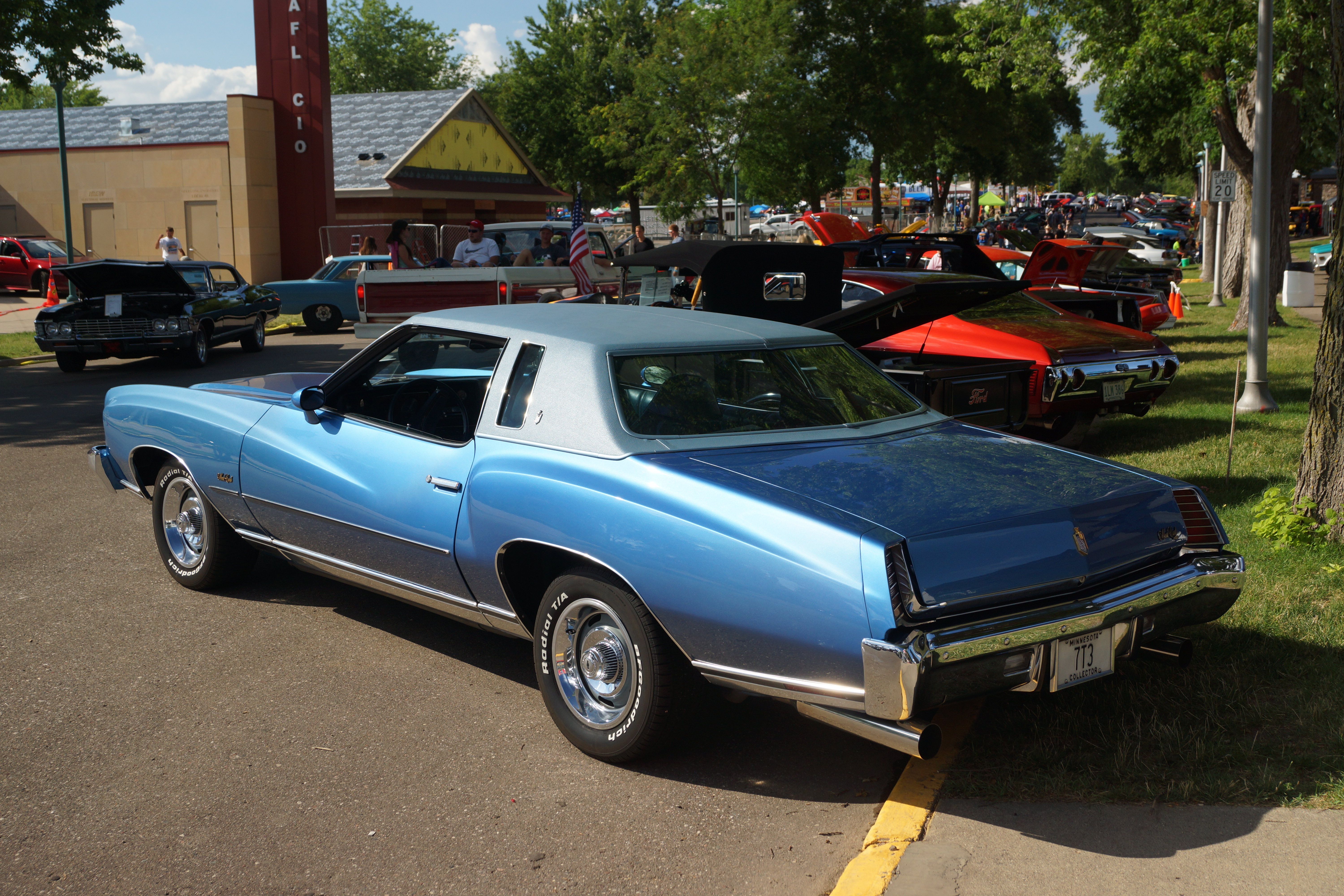 Click here for more car pictures at my Flickr site. O'Reilly Auto Parts Street Machine Summer Nationals Minnesota State Fairgrounds St. Paul, Minnesota July 2016